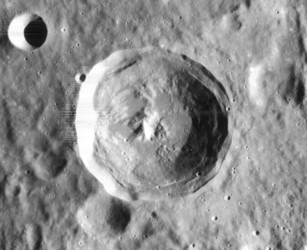 Crater Herschel on the Moon.